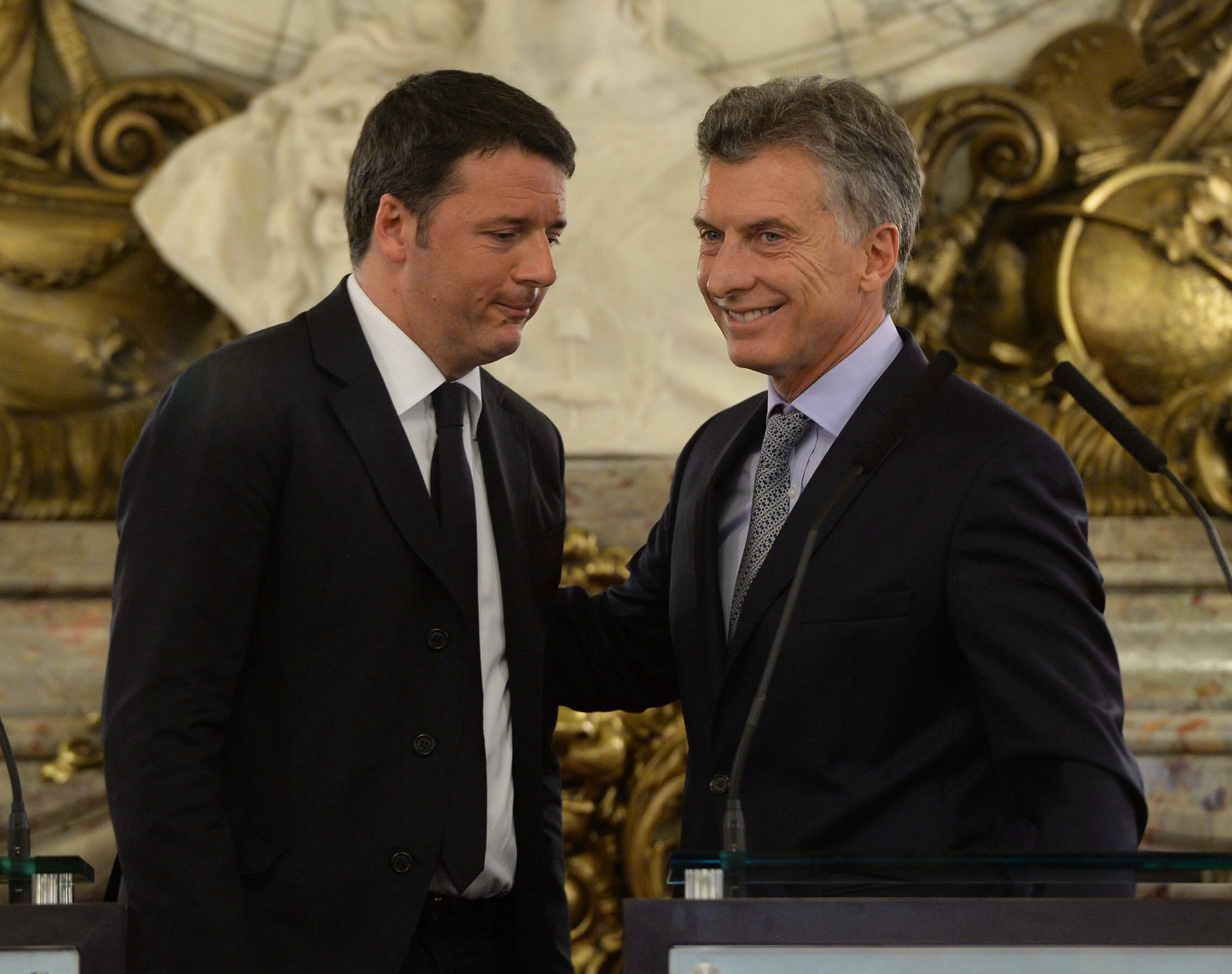 Matteo Renzi with Mauricio Macri